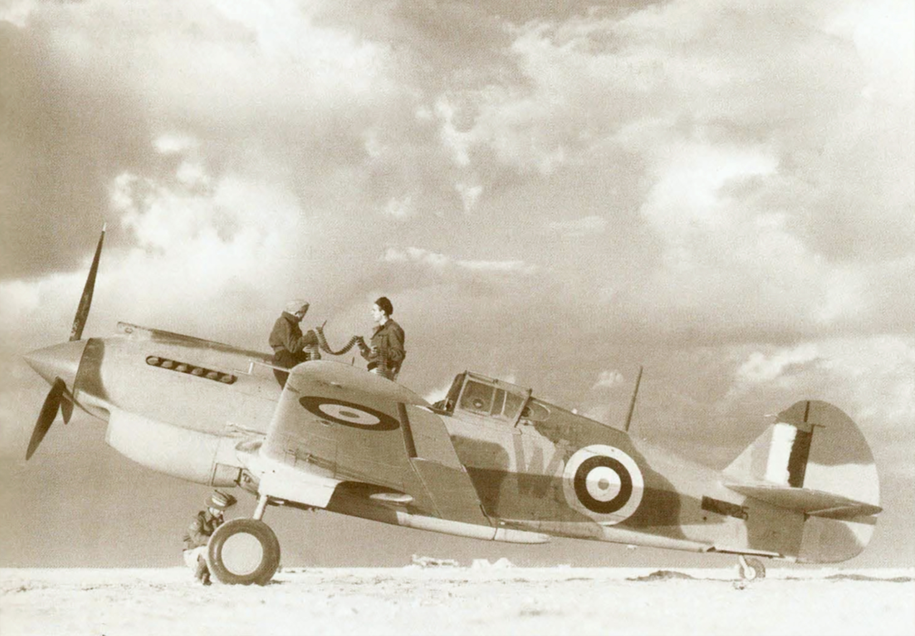 Western Desert, North Africa. 1941-12-23. Armourers working on a Tomahawk fighter aircraft of No 3 Squadron RAAF.